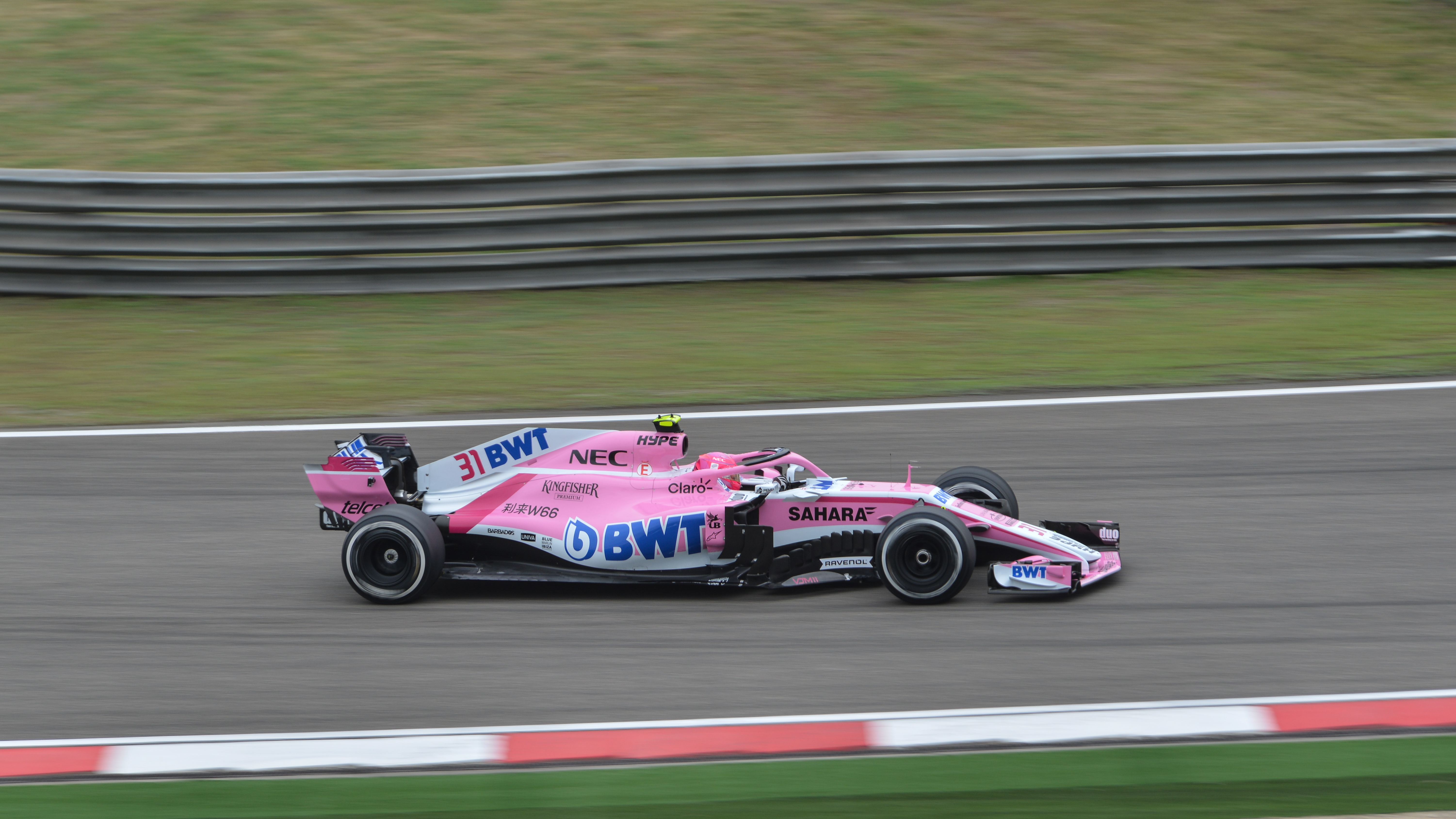 Force India Mercedes